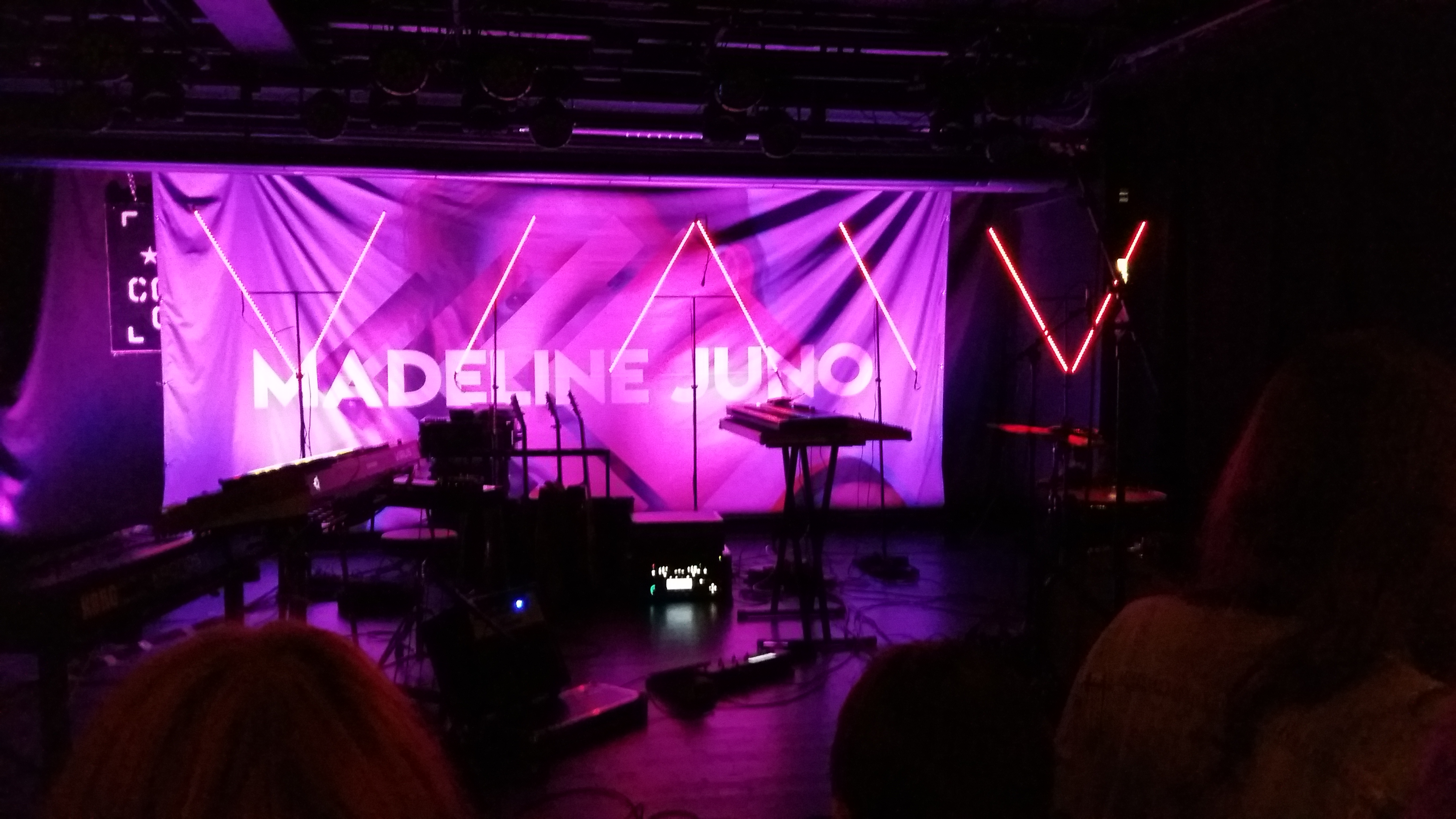 Madeline Juno Stage at Kammgarn 2017